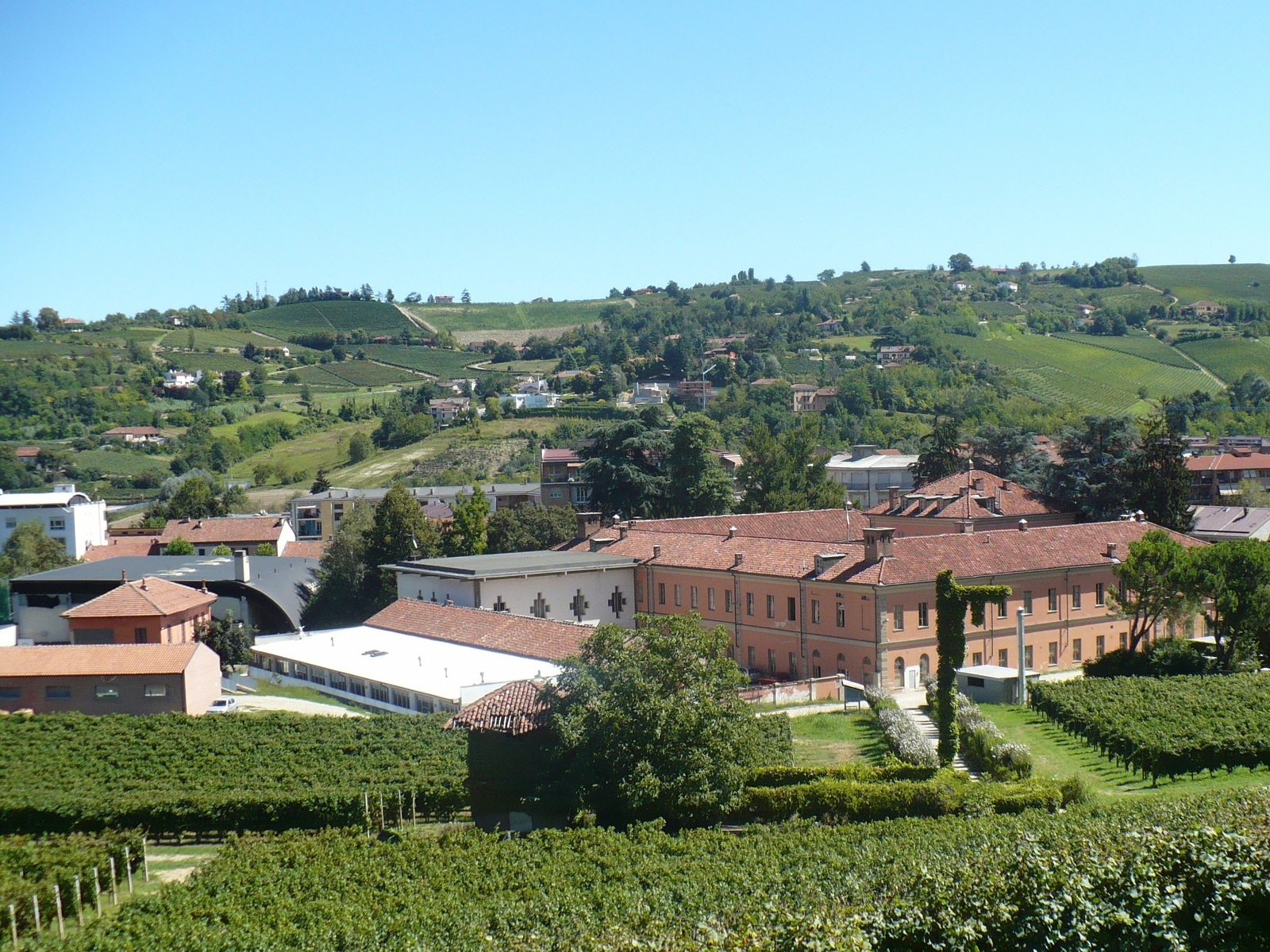 School of Enology - Alba (Italy). View from University building.